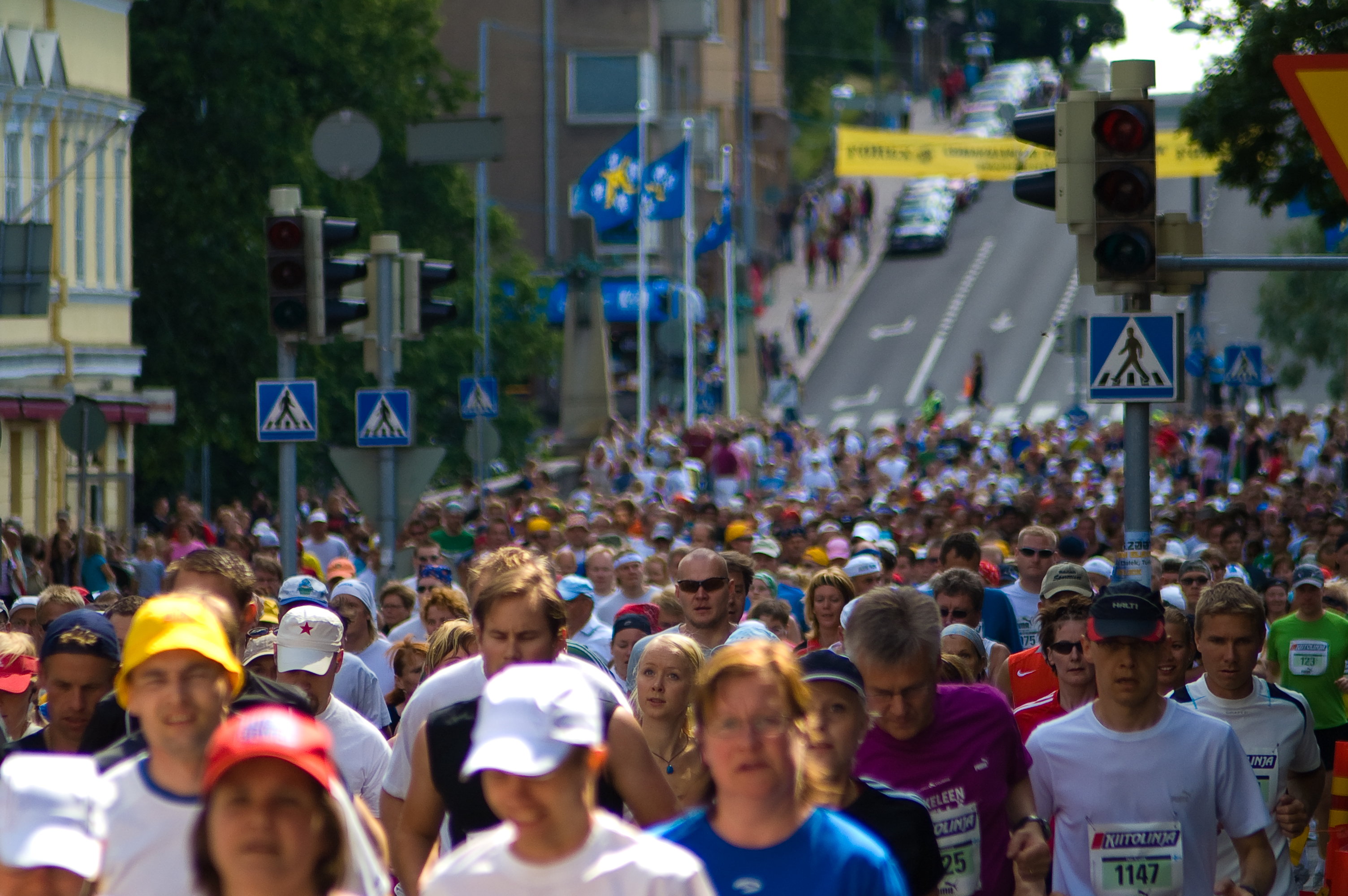 Paavo Nurmi Marathon, 2007, Aurakatuaurakadun täydeltä